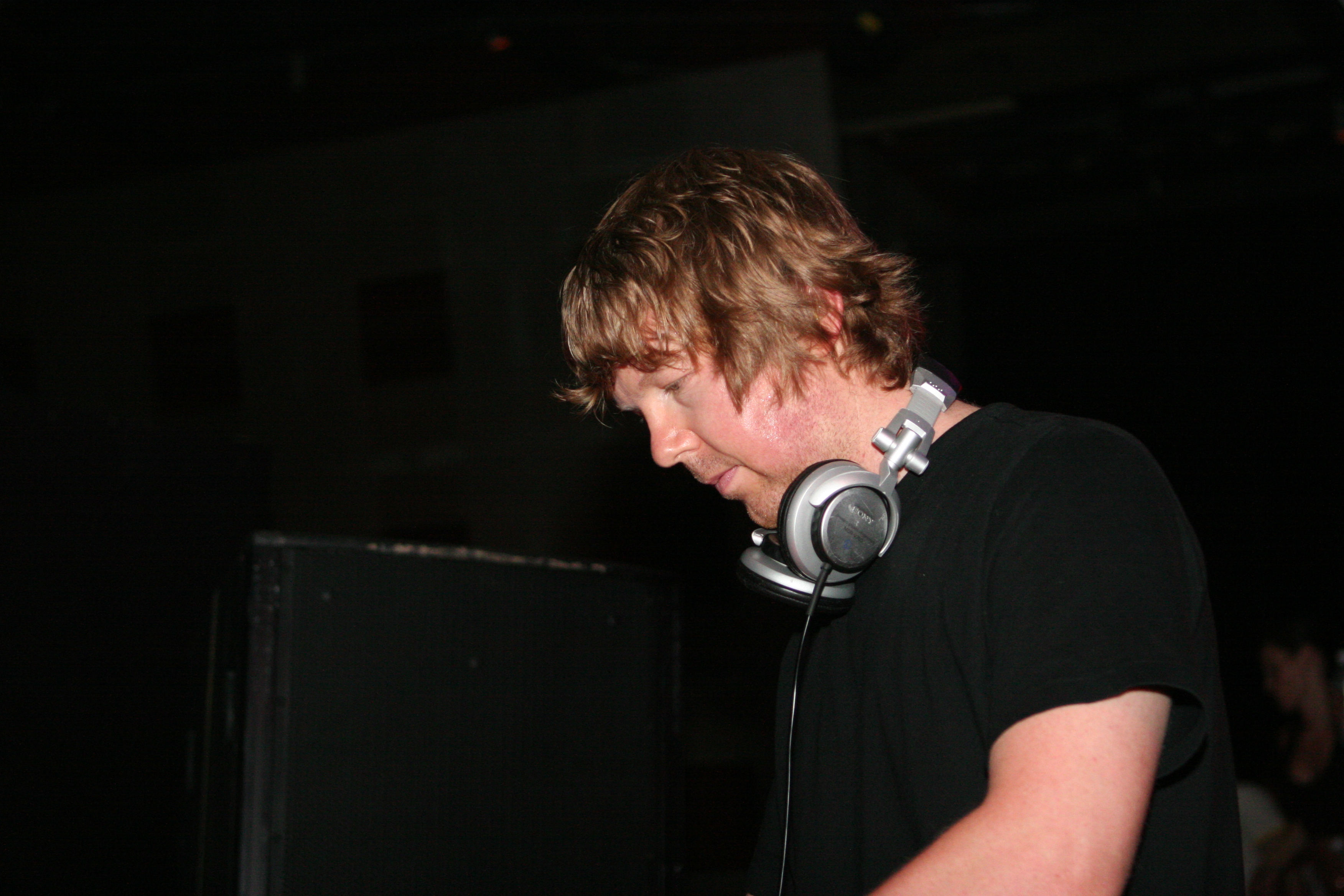 John Digweed @ 2006-09-03 Labour of Love, Toronto